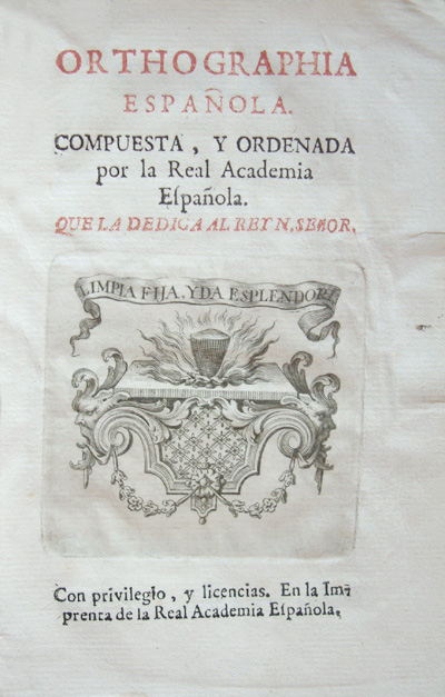 Facsimile of Orthographía española from year 1741.